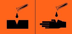 corrosion symbols